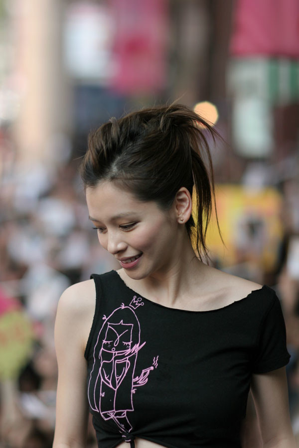 Autograph session with Vivian Hsu.